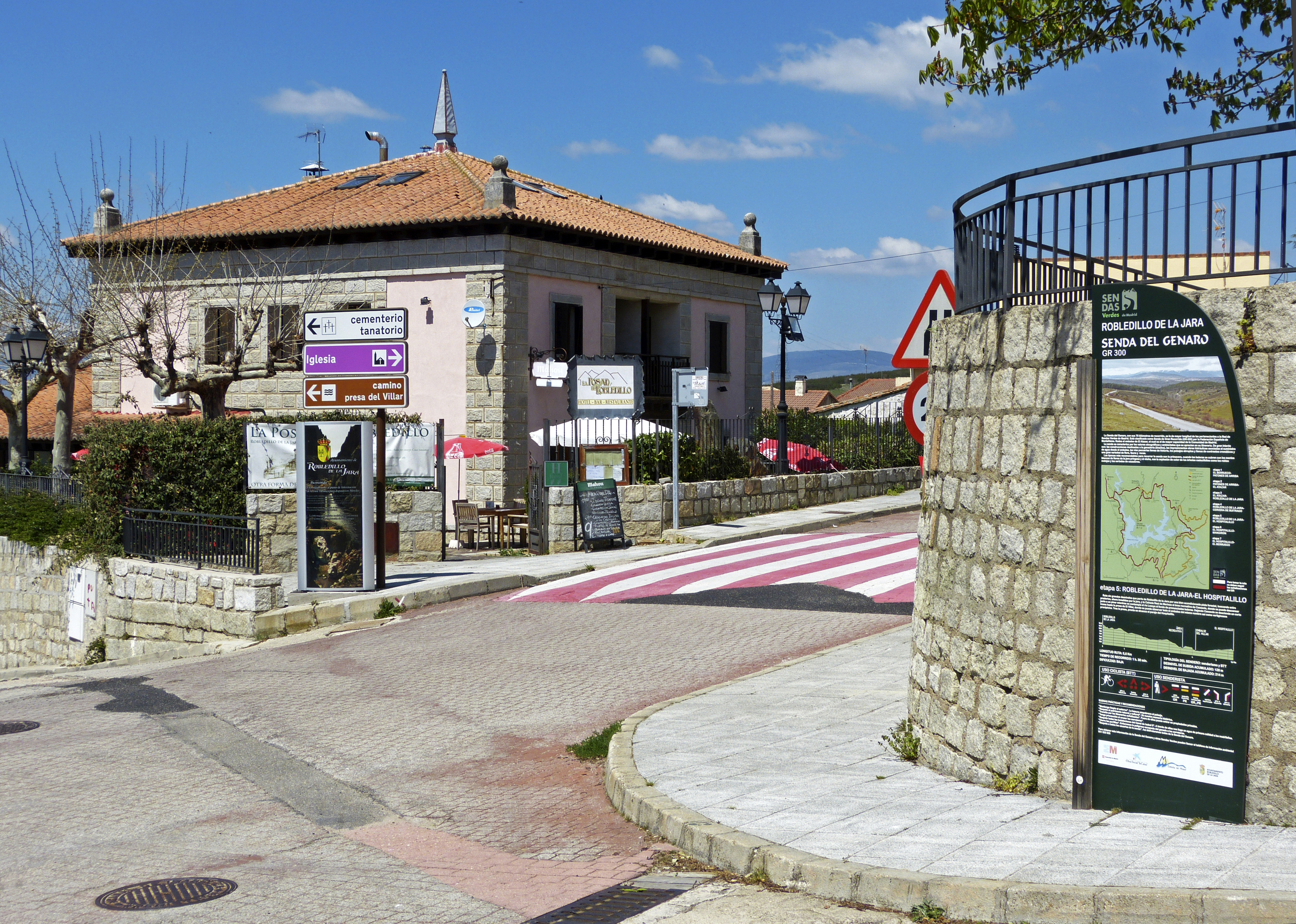 La Posada Restaurant, former clinic and Casa del Médico.